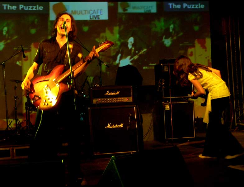 The Puzzle gig